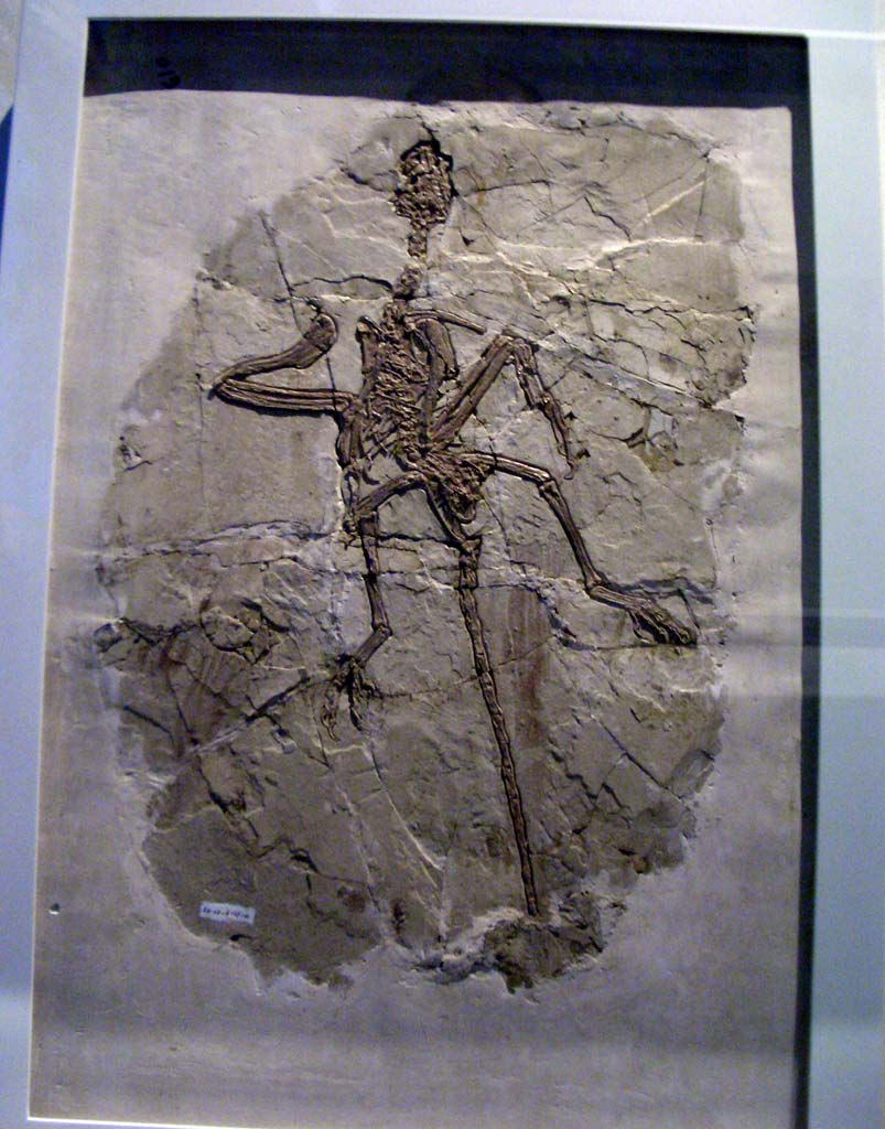 Jixiangornis orientalis fossil displayed in Hong Kong Science Museum